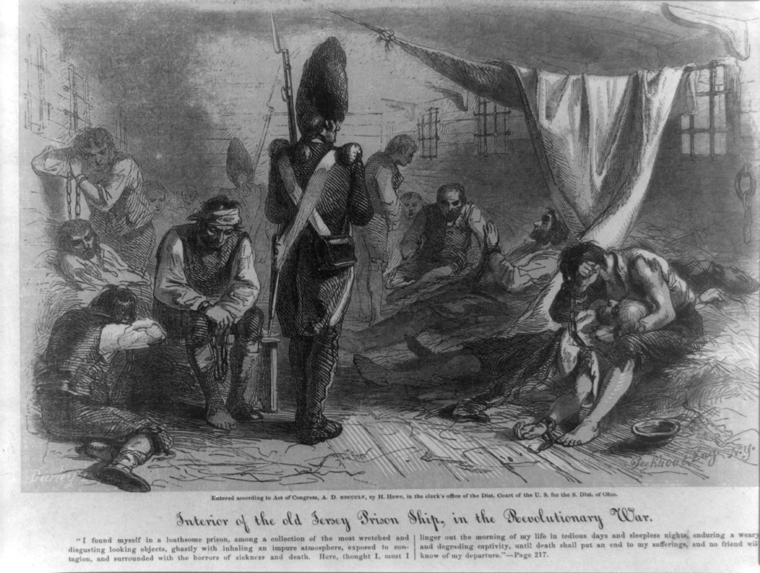 Interior of the old Jersey prison ship, in the Revolutionary War / Darley ; Bookhout, eng. N.Y./ Interior view of the Jersey, a British prison ship during the Revolutionary War, showing prisoners and guard. Source indicates LOC as original source of image.